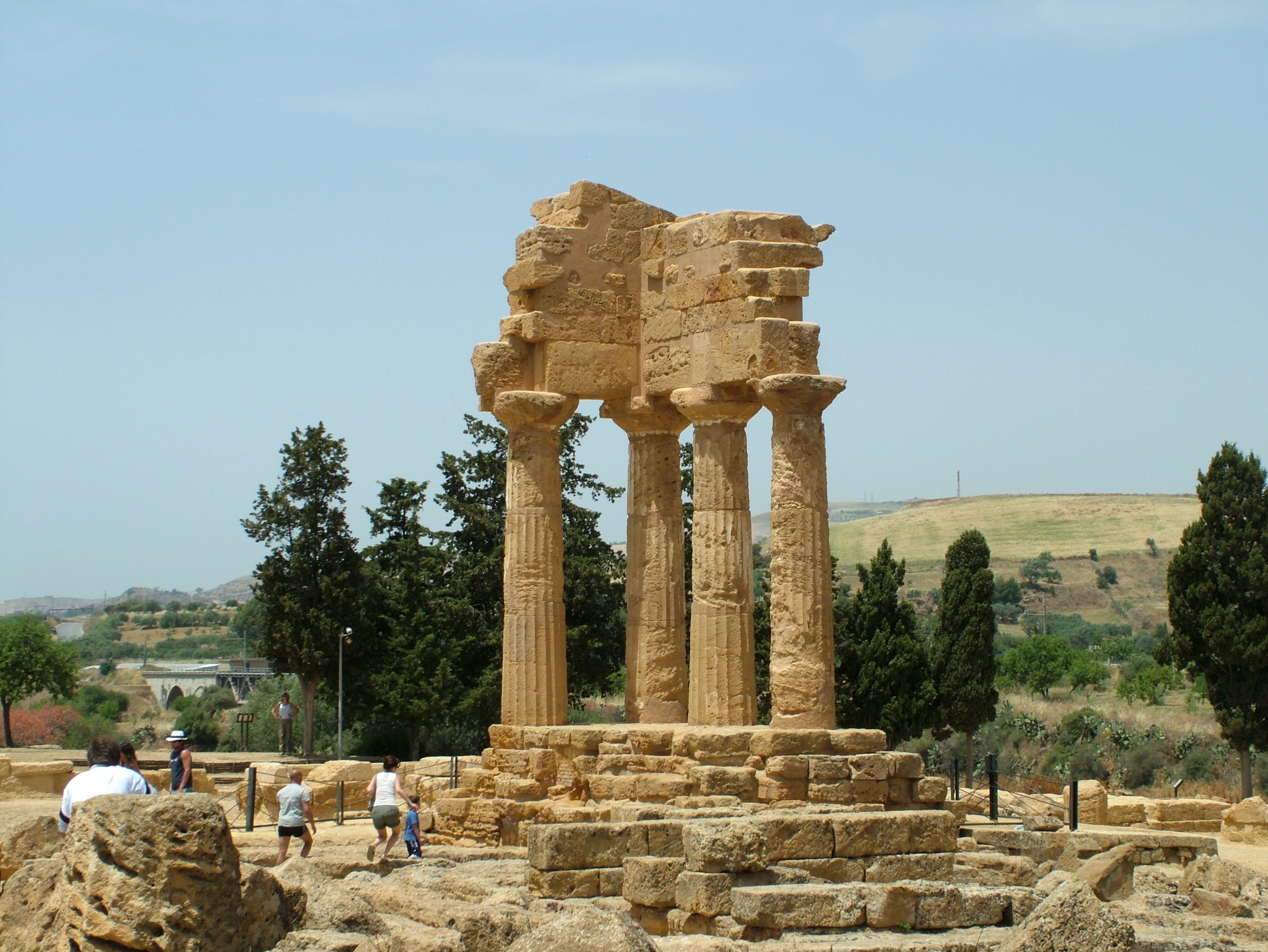 Agrigento, Sicily, The ancien Greek temple of the Dioscuri.